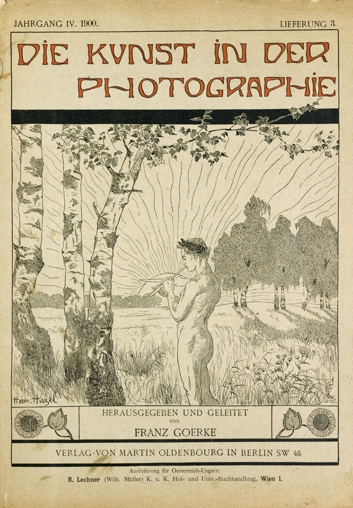 Cover Design: Die Kunst in der Photographie